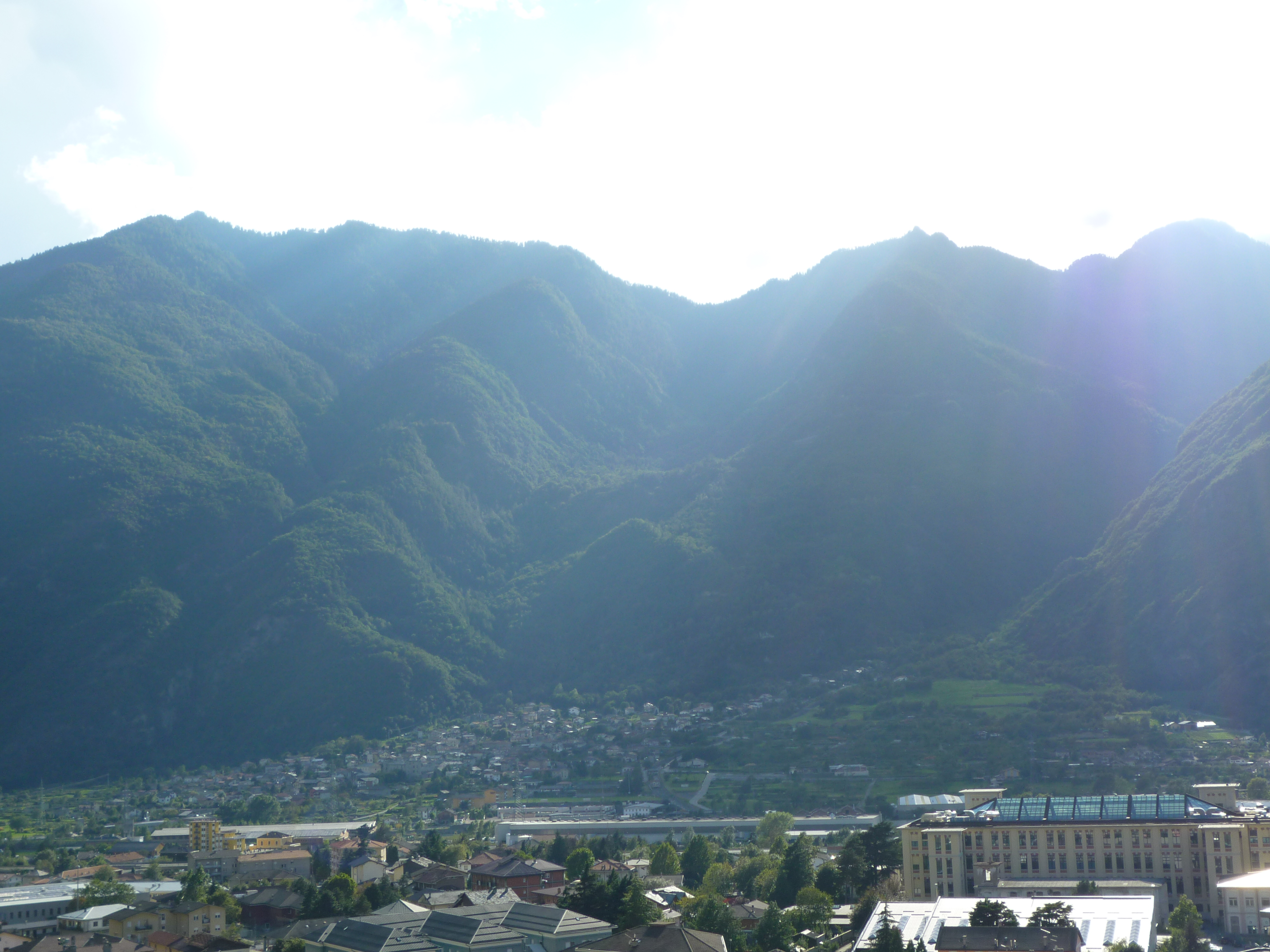 Issogne (Aosta Valley, Italy)